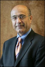 Portrait